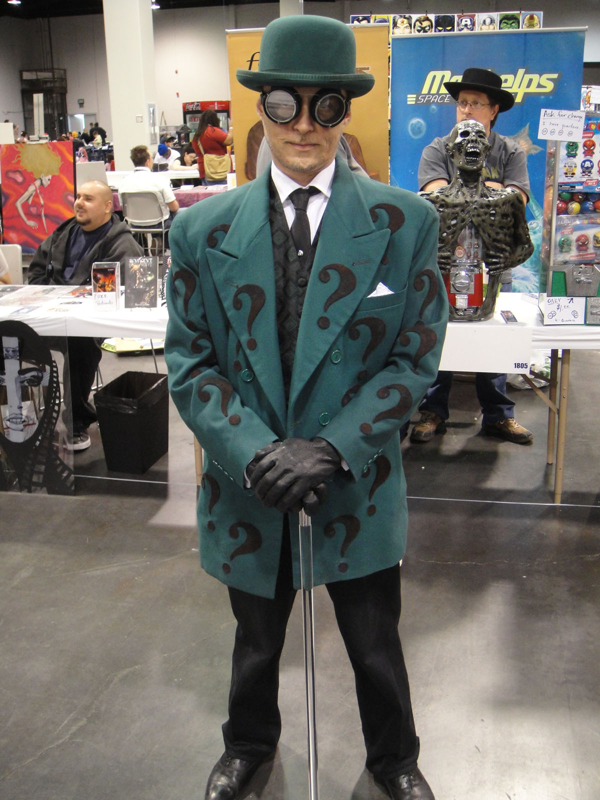 photo 2011 taken by Doug Kline If you're interested in higher resolution versions of my images, contact me via my profile page.